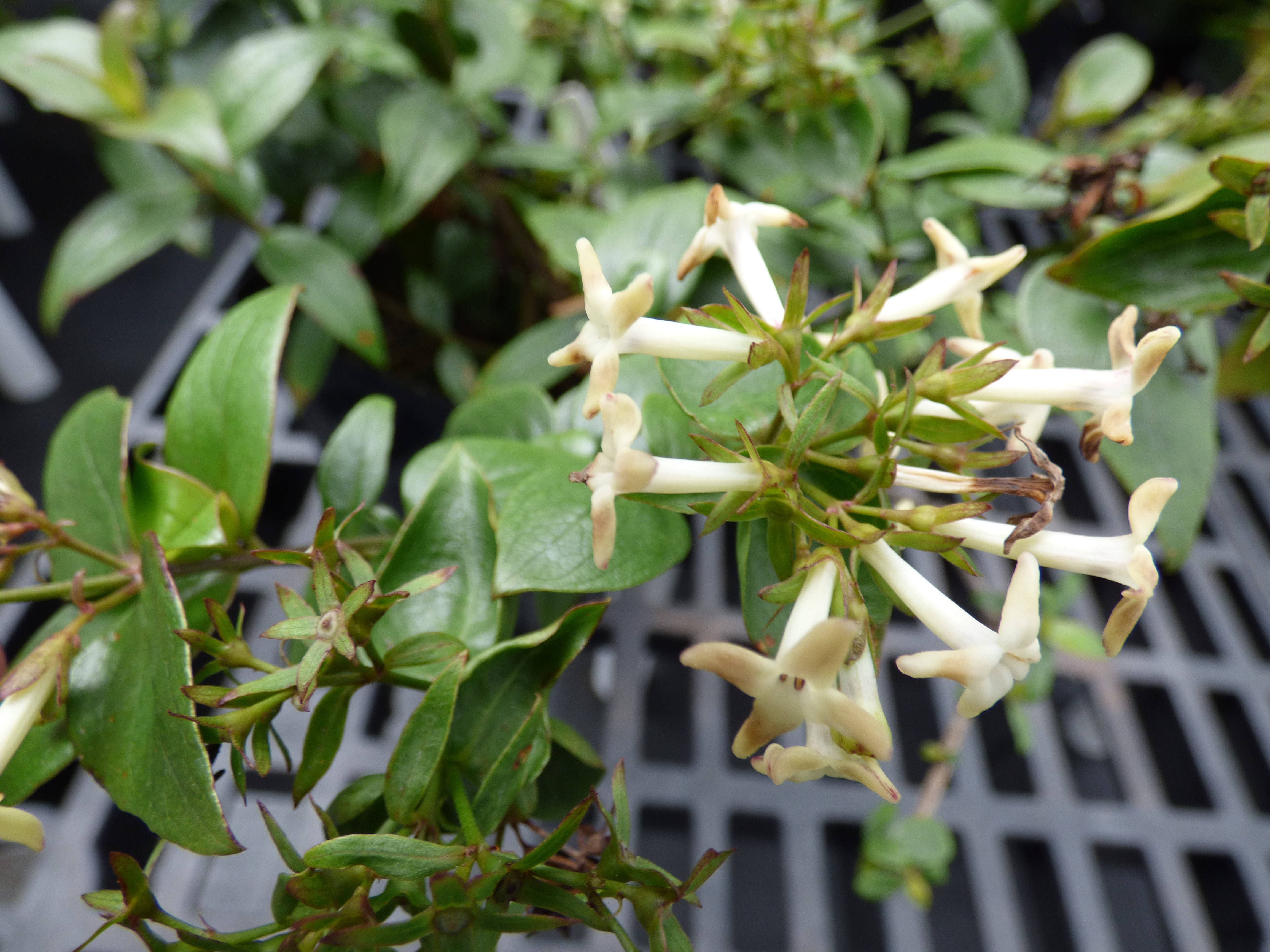 Kadua cordata (Manono) Flowers leaves at Olinda Rare Plant Nursery, Maui, Hawaii.